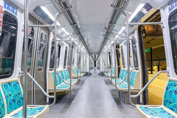 Interior of an Alstom Line D carriage on the Buenos Aires Underground